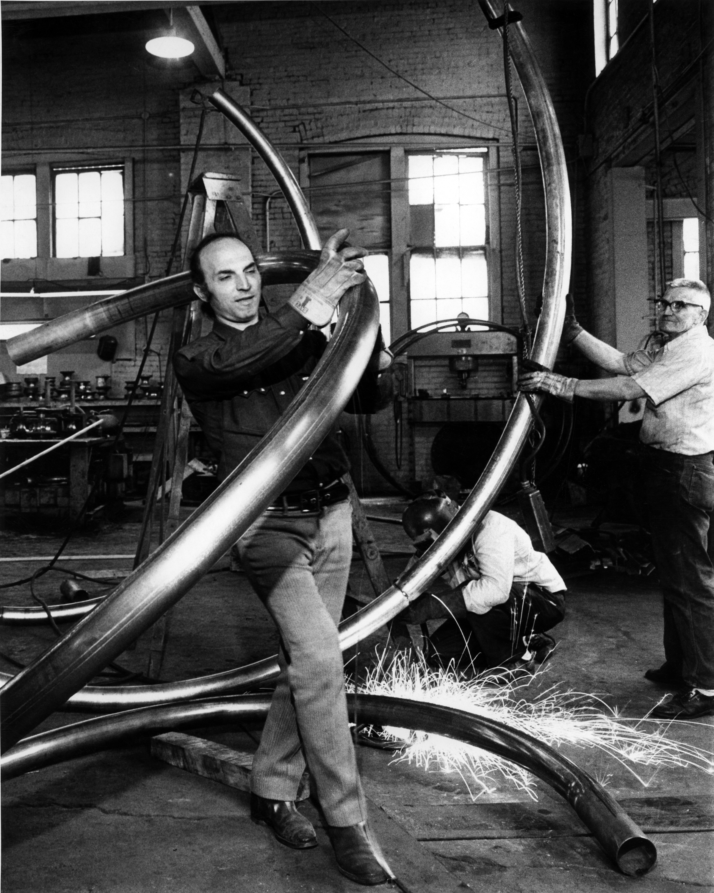 Sasson Soffer in his New York studio, 1970s. Taken by his family